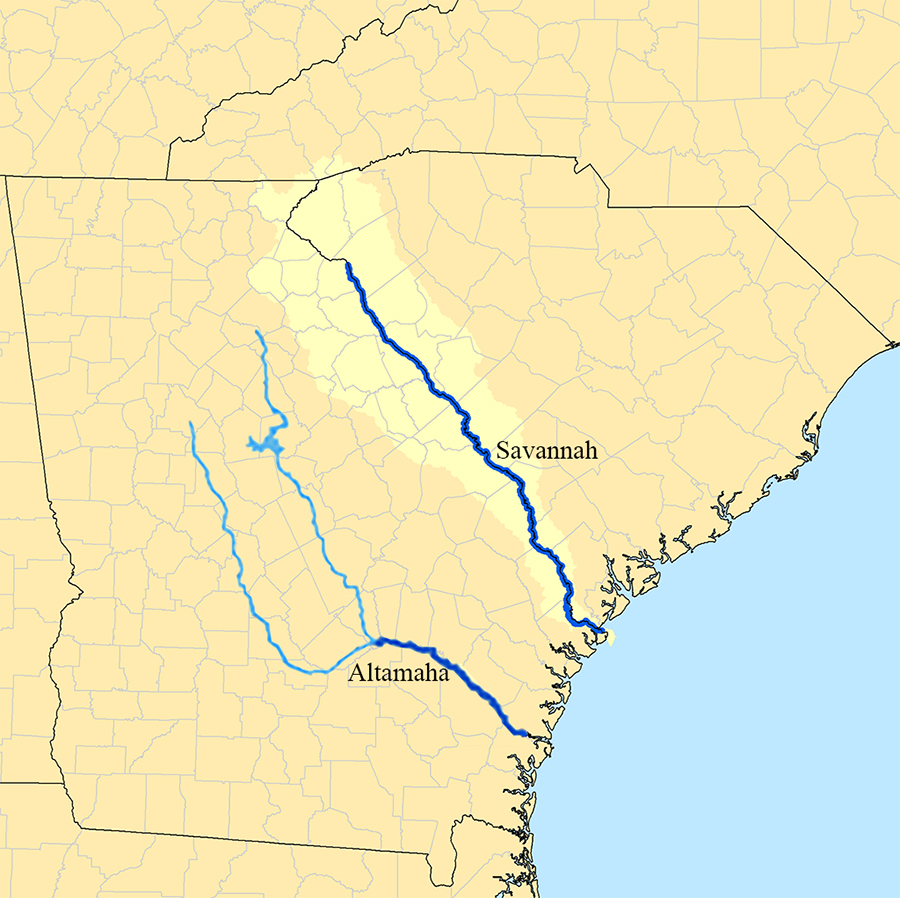 (Translation by Google Translate): The rivers Savannah and 'Atlamaha' delimiting the territories ceded to Robert Montgomery in 1717.